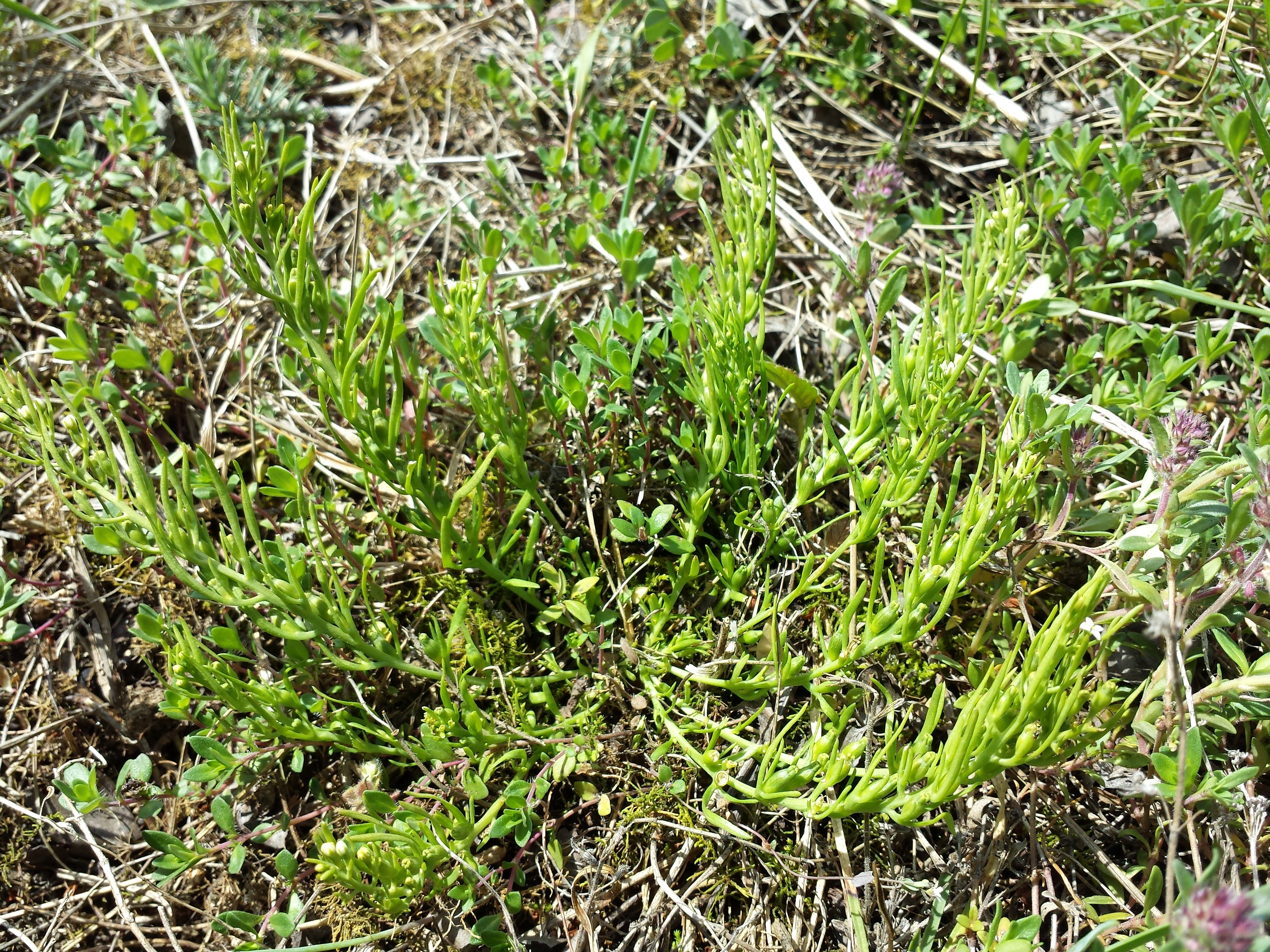 Habitus Taxon: Thesium dollineri (sensu Fischer et al. EfÖLS 2008 ISBN 978-3-85474-187-9) Location: Gebmannsberg, district Korneuburg, Lower Austria - ca. 340 m a.s.l. Habitat: dry grassland (Loess)